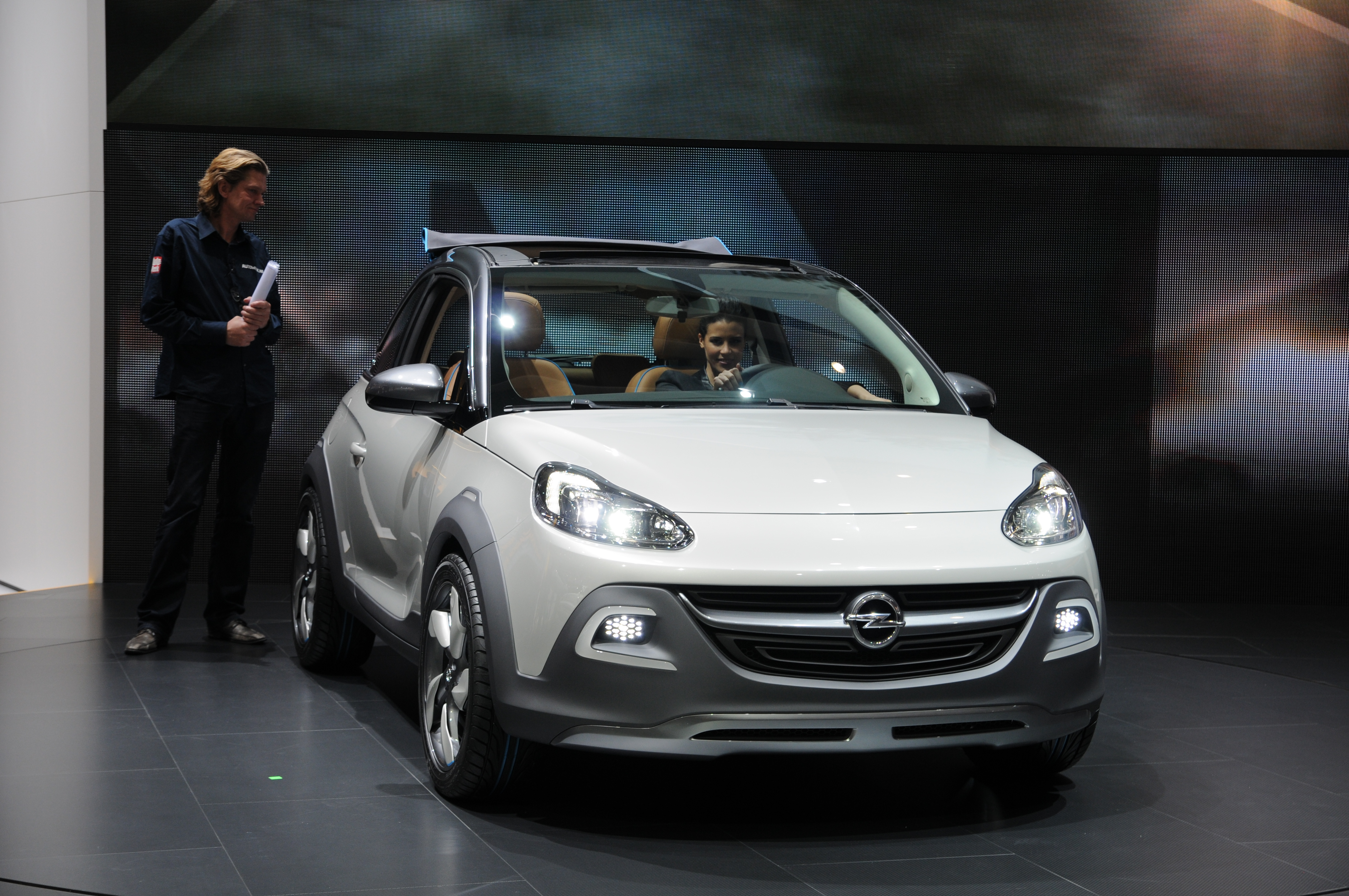 Geneva Motor Show 2013 (photos taken on the first press day)